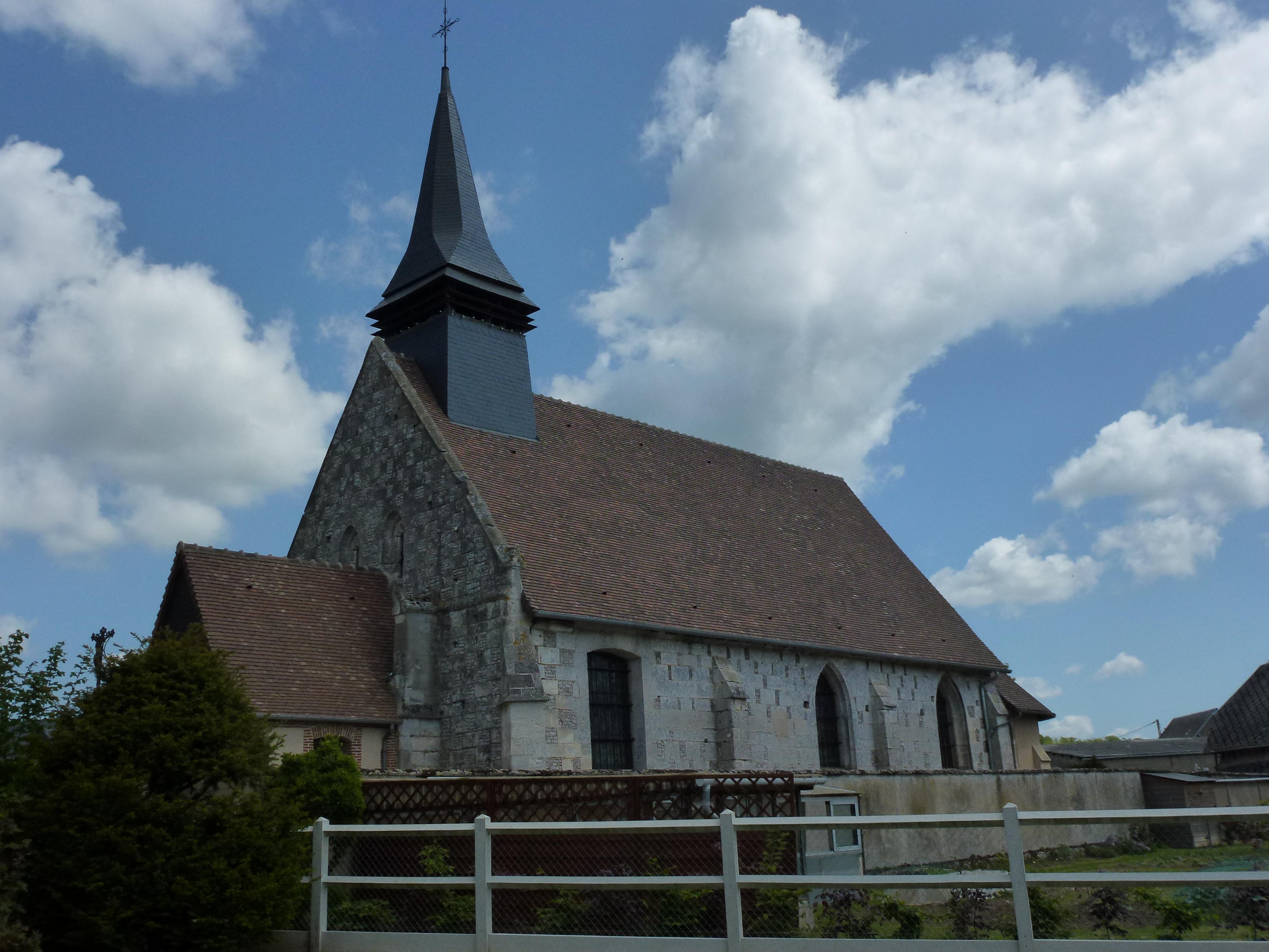 Saint-Nicolas-du-Bosc (Eure, Fr) église St.Nicolas